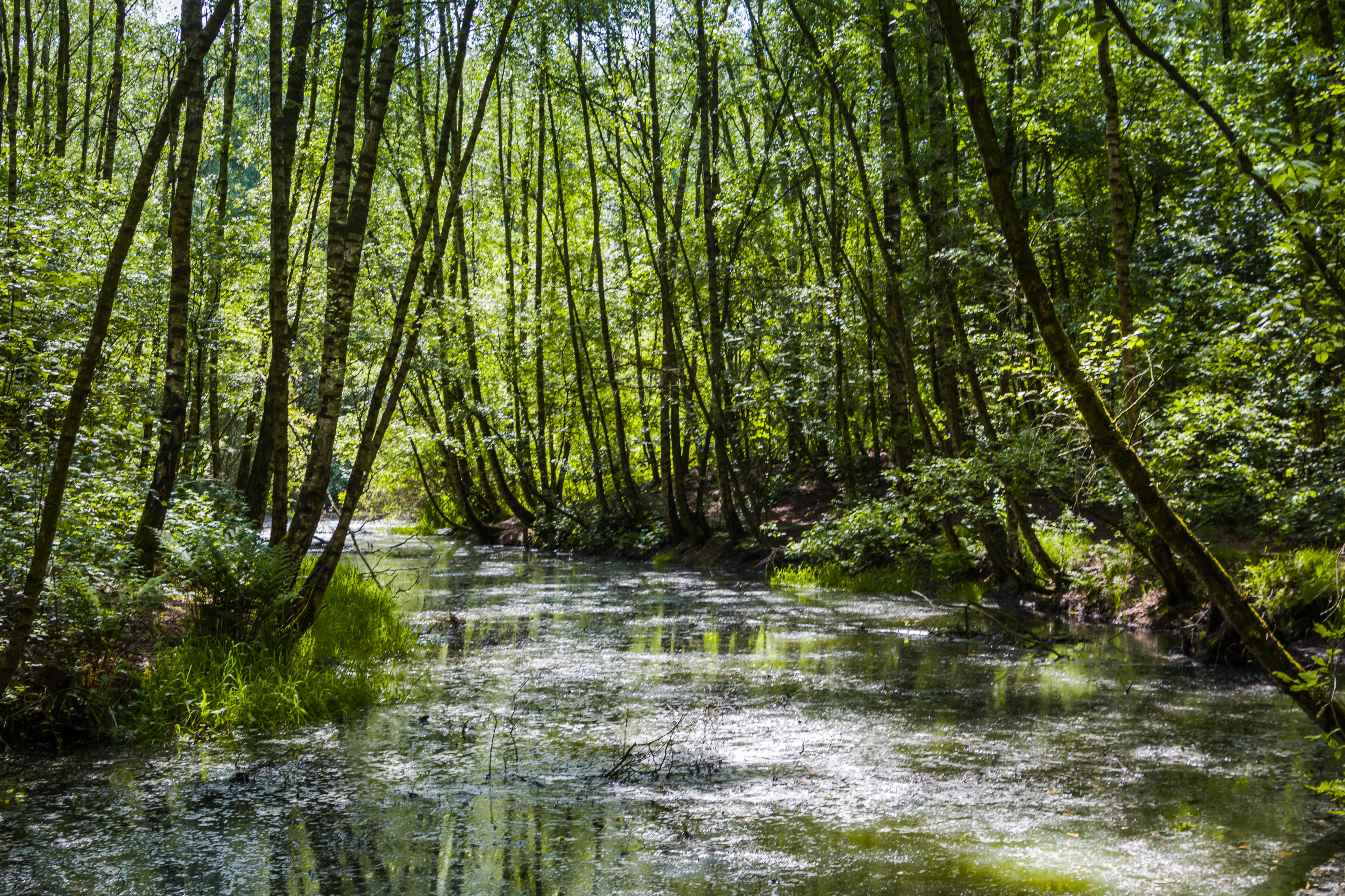 Pond in protected area "Am Stadtwaldsee" Bremen close to the "Stadtwaldsee". Natural development.